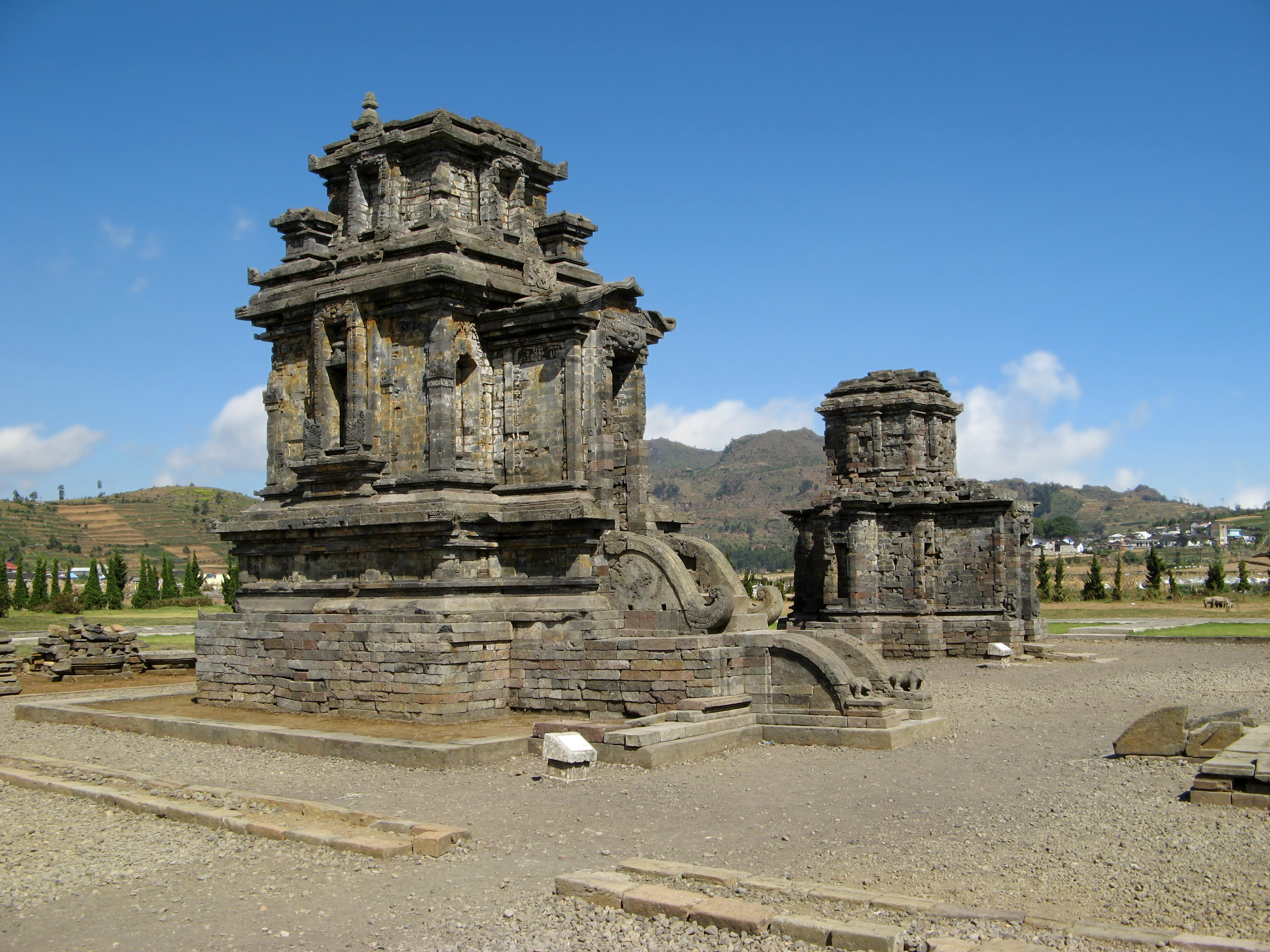 This candi is located just south of C. Srikandi. Approached by a double staircase, it was dedicated to Shiva. The site museum contains several sculptures that museum signage associates with this temple: a lingam and yoni (cella), Durga (N), Ganesha (E), and Agastya(S). Candi Sembadra is also seen in this photo, just to the south of Puntadewa.